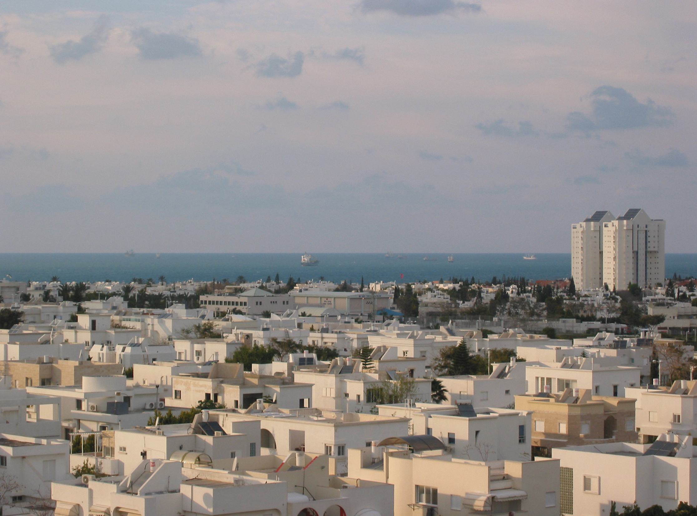 Ashdod, Israel. Rooftop view.